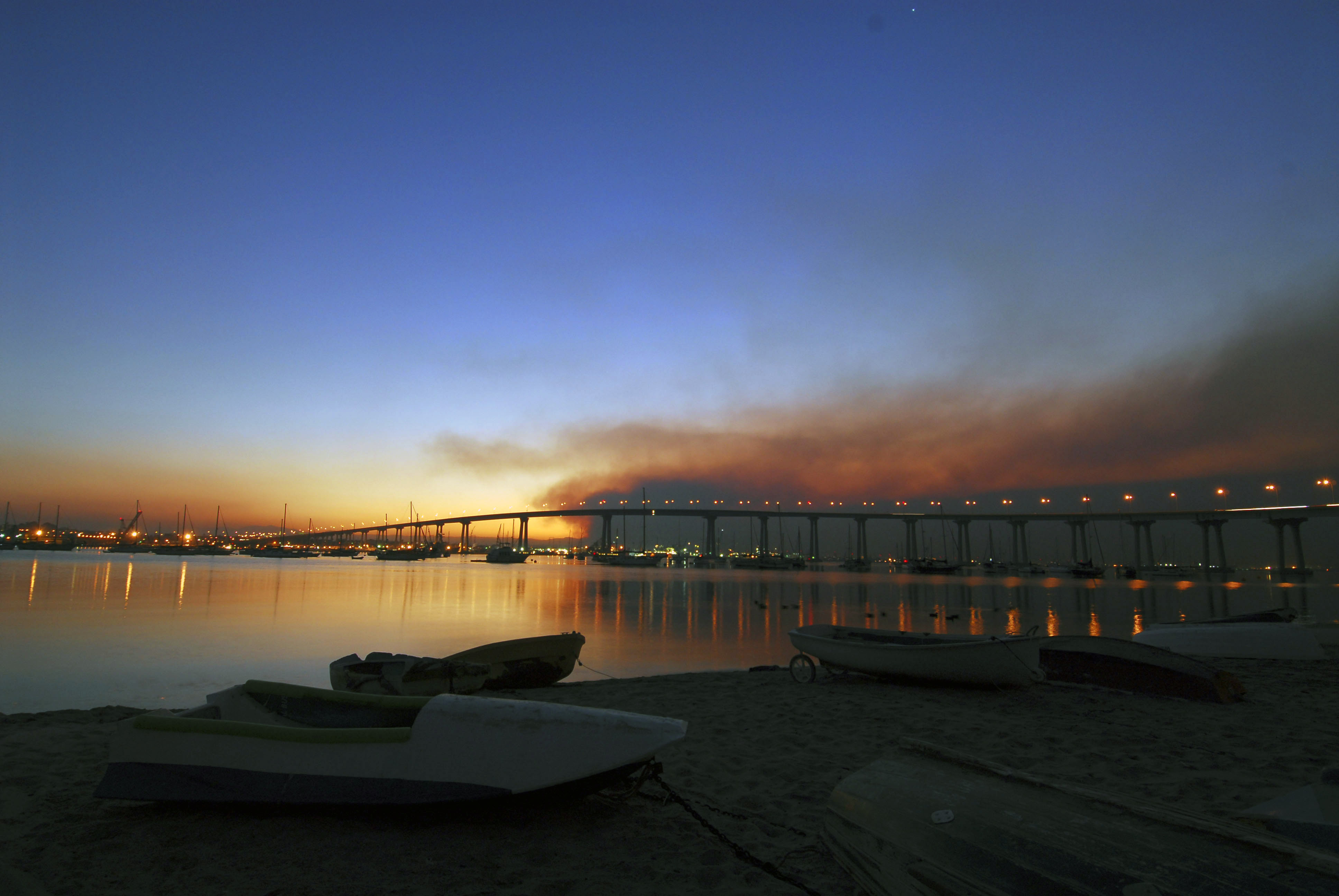 CORONADO, Calif. (Oct. 23, 2007) - The sun rises over the Coronado Bay Bridge with smoke from the Harris fire looming overhead. Numerous fires are burning in San Diego County, however none are threatening Navy facilities. Navy Region Southwest has established several Military Evacuation Centers for Navy families (and their pets) who have been forced to evacuate their homes. U.S. Navy photo by Lt. Nick Sherrouse (RELEASED)